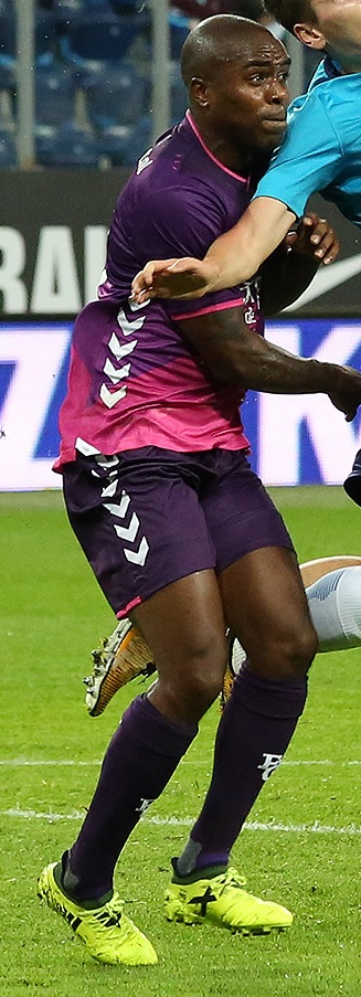 Edson Braafheid with FC Utrecht in a UEFA Europa League game against FC Zenit Saint Petersburg.